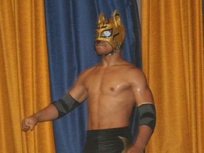 Professional wrestler Lince Dorado at Chikara Young Lions Cup 6 Night #2 in June 2008.